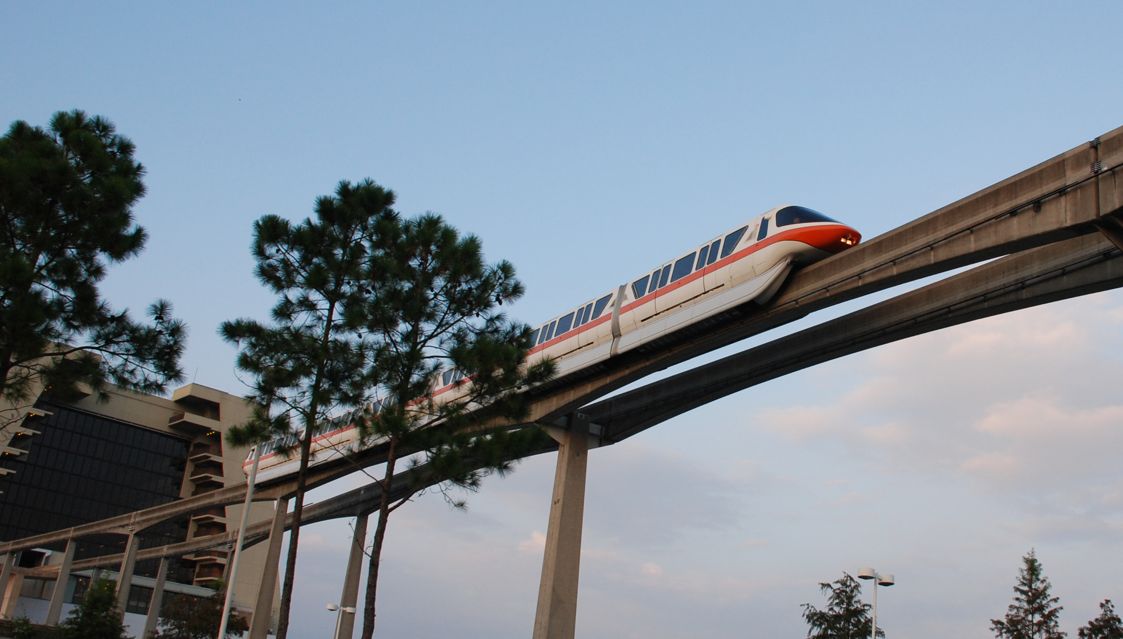 Walt Disney World Monorail outside the Contemporary Hotel - October 2006